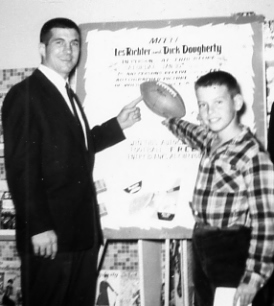 Les Richter and Bruce Long (author), 1959.